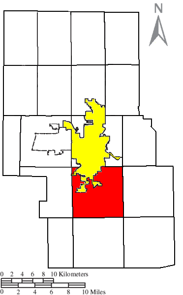 Made by the US Census and altered by myself to highlight the township